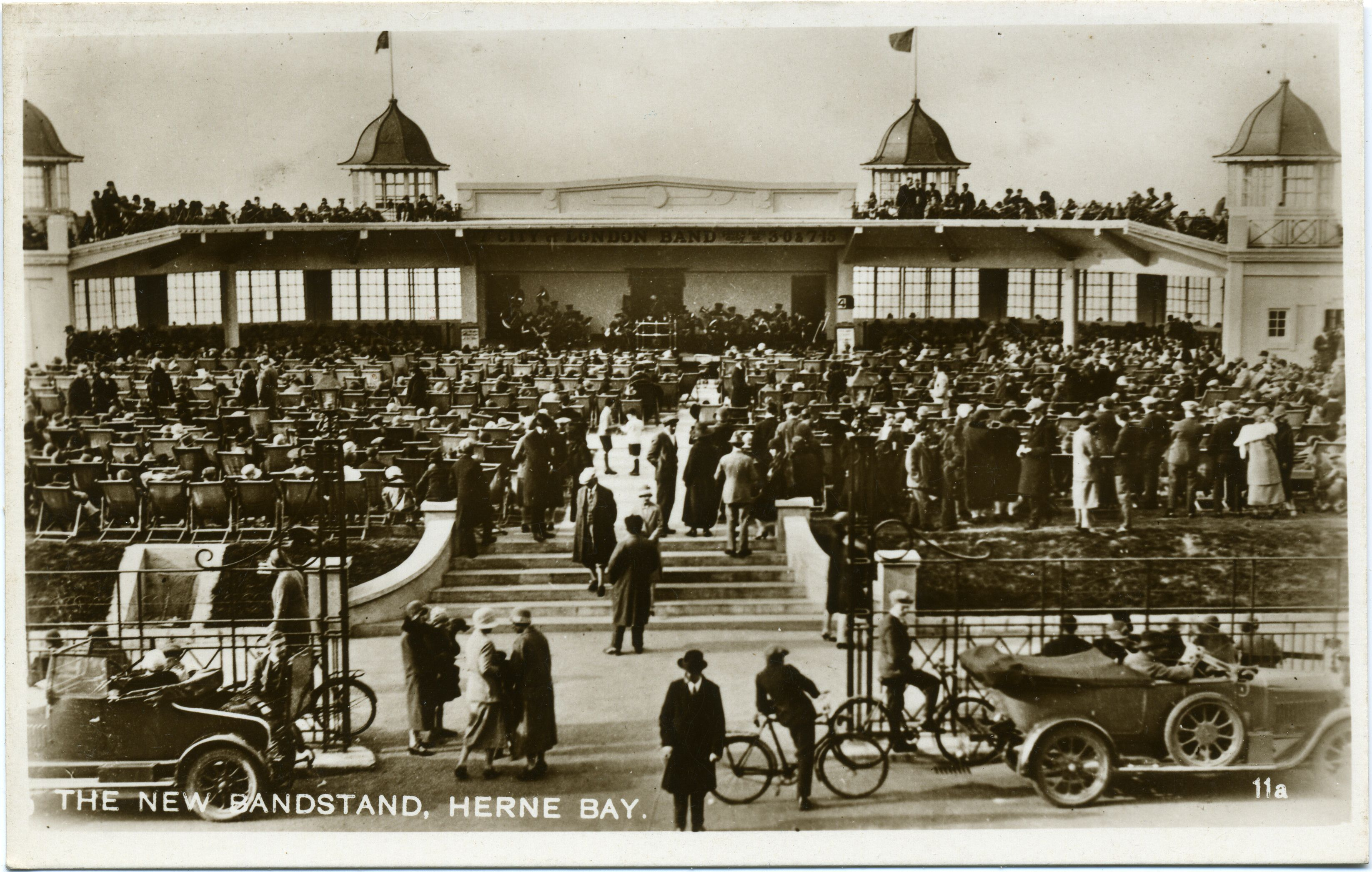 The Central Bandstand, Herne Bay, Kent, England. The title "The new bandstand" suggests that the photograph was taken in 1925, a year after it was built. Points of interest The photographer probably used film instead of a large-format glass negative. The picture is in focus but there is no fine detail. The deckchair boys, employed from 14 years old, can be seen in the centre aisle. The bicycle-riders in the foreground are probably posed. The notice over the proscenium arch above the stage says: "City of London Band (will play?) daily at 3.0 & 7.15". (Some sources wrongly state that this is the Buffs regiment, which did also play in Herne Bay). In the band on the left are two sousaphones (see example here: File:Eis-Zwei-Geissebei IMG 8662.JPG)